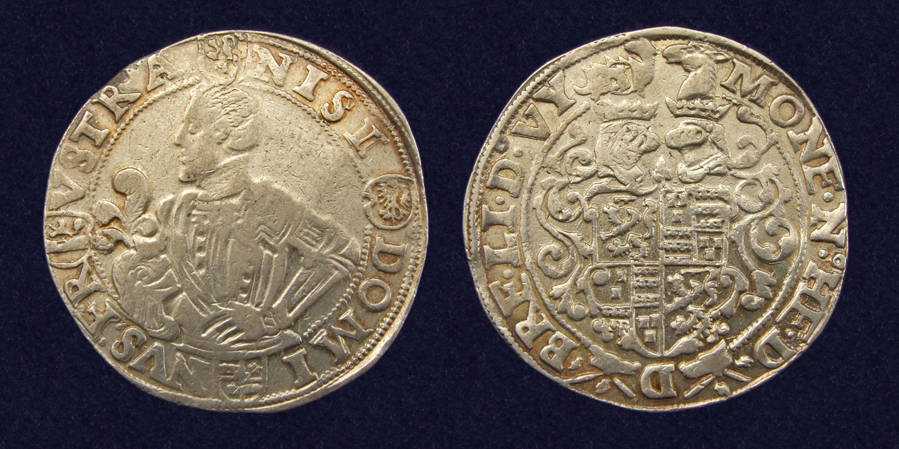 Sovereignty Vianen, AR Thaler, Hendrick van Brederode (1556-1558). Obverse: Cuirassed bust to left, holding helmet in hand. Legend interrupted by the shields of Brederode, Nieuwenaar, Schauenburg and Marck. Legend: NSI - DOMI - NVS:FR - VSTRA. Reverse: Shield beneath two tournament helmets. Legend: MONE.N:HE.D - D - BRE.LI.D.VY.